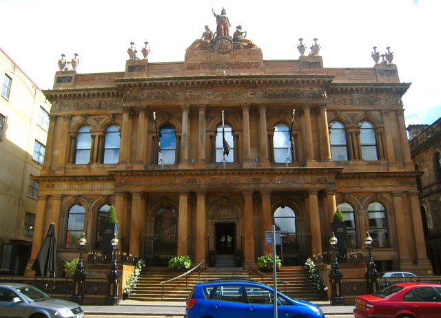 Merchant Hotel The Merchant Hotel is situated in the old headquarters of the Ulster Bank in Waring Street.